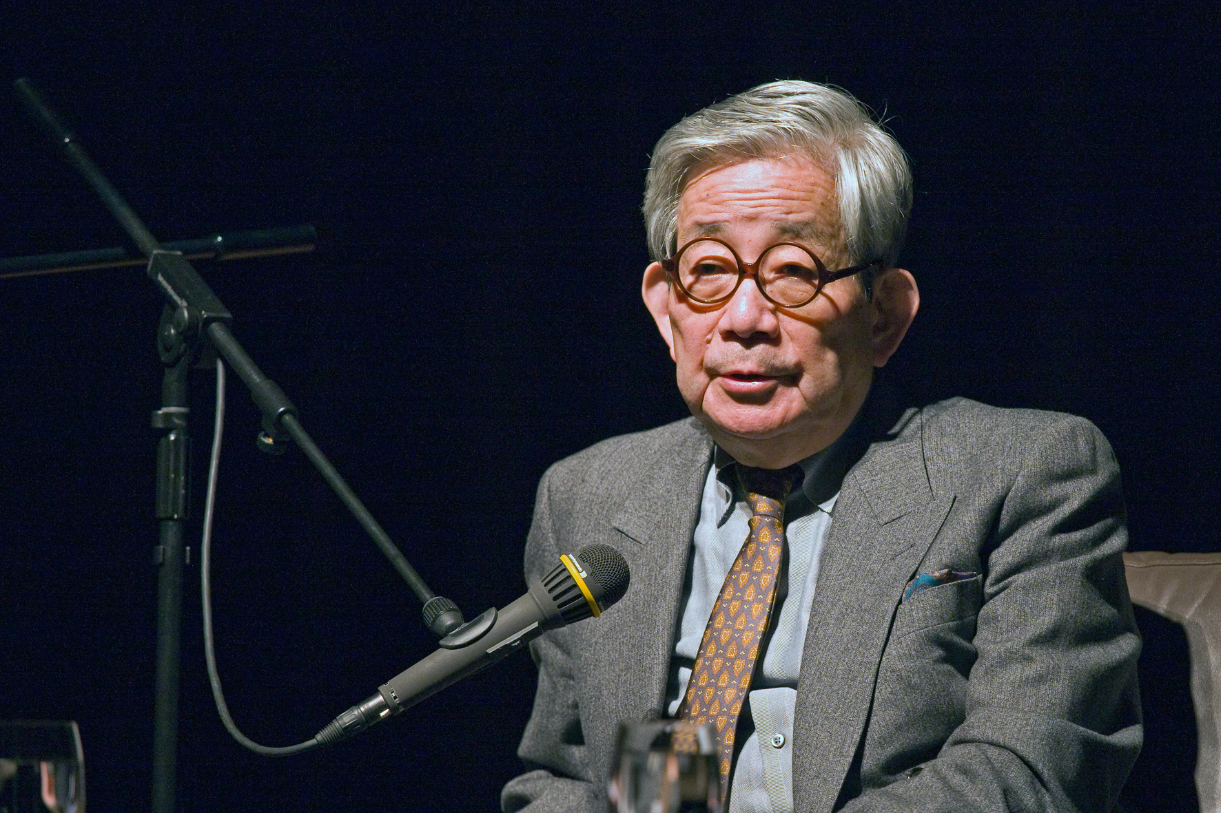 Kenzaburo Oe at Japan Institute Cologne, Germany